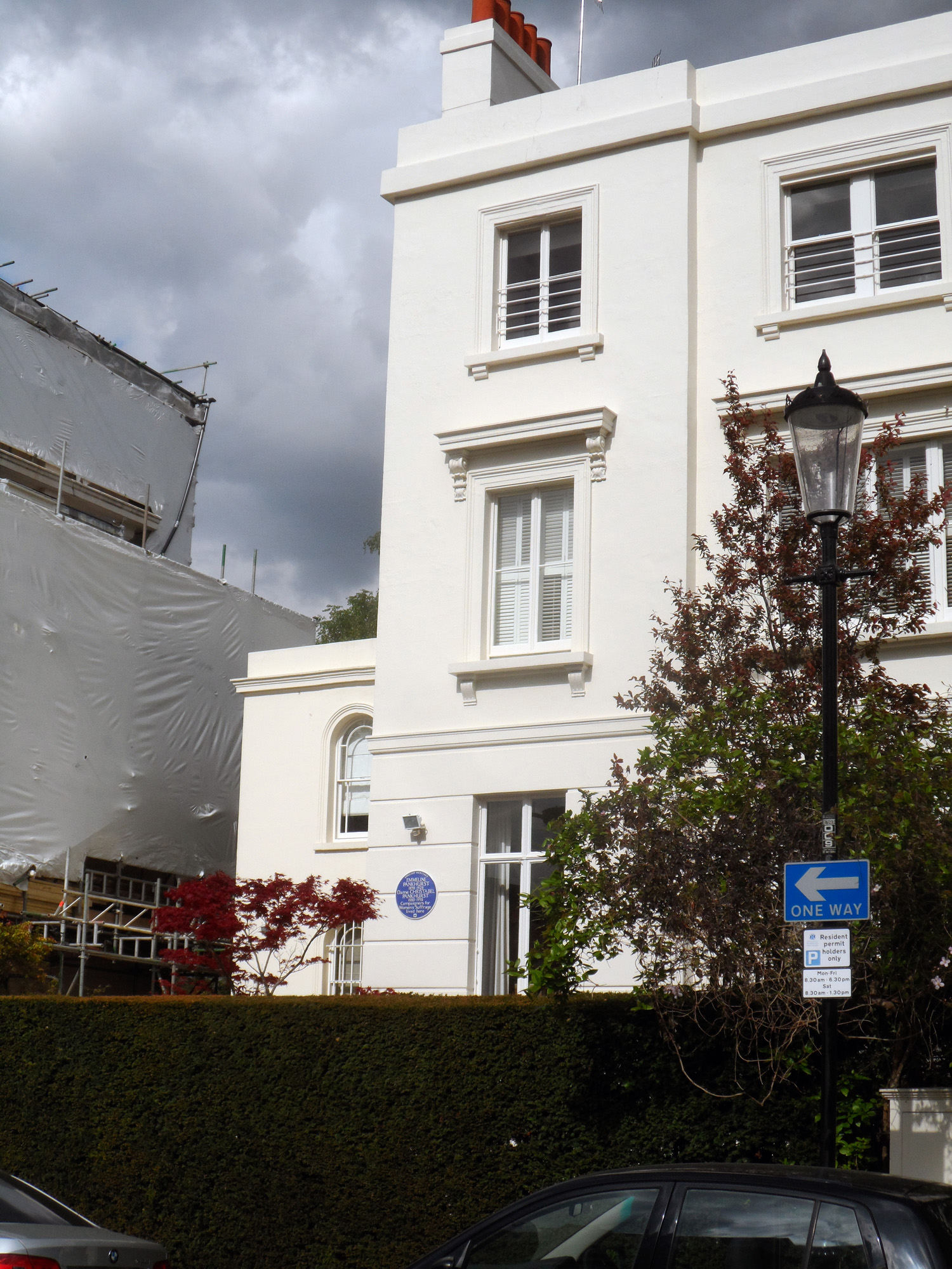 EMMELINE PANKHURST 1858-1928 Dame CHRISTABEL PANKHURST 1880-1958 Campaigners for Women's Suffrage lived here